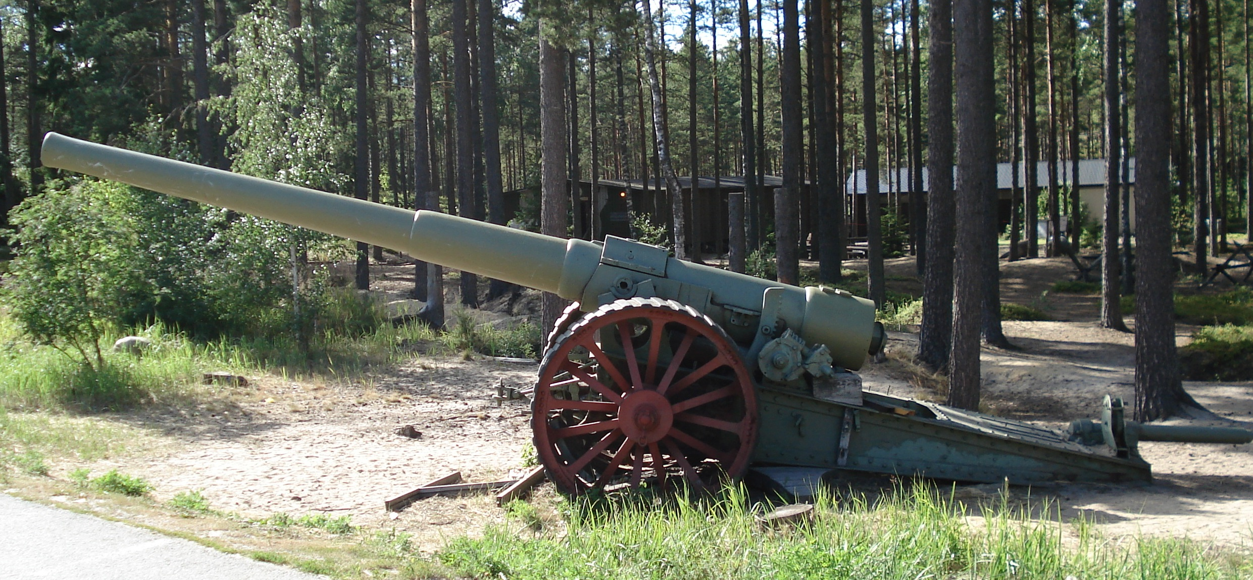 British BL 6 inch Mk 7 gun displayed in Lappohja Front Museum. The museum label did not specify which specific Mark this one belonged to. It is also not clear how the gun ended up in Finland and how it was used. Source: Photo by me, User:Balcer.